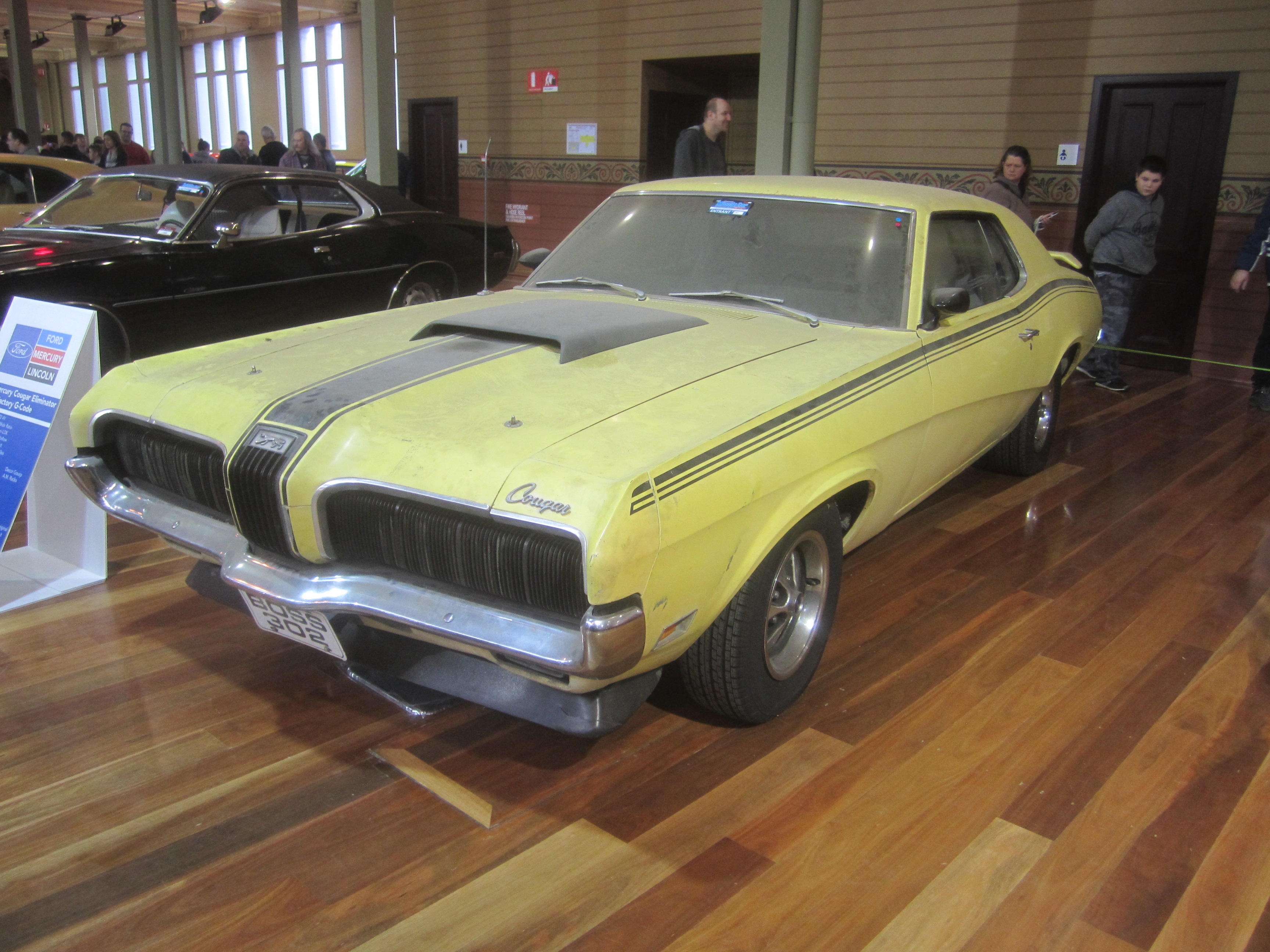 Yellow. The first generation Cougar was built from 1967-70 and was built on the Mustang platform, (Later built on the Torino platform, then Tbird platform). It was 3 inches longer and more luxurious than the Mustang. 1970 saw a new front end which featured a pronounced center hood extension and electric shaver grille similar to the 1967 and 1968 Cougars. Available was the base Cougar, luxury XR7 (which got woodgrain dash and steering wheel.) and the performance Cougar Eliminator. The Eliminator was introduced in 1969, it got a blacked out grille, side stripes, front and rear spoilers, Ram Air hood and tuned suspension Engines options on the Eliminator; 351 4 bbl, 390 4 bbl, 428 CJ and as on this car, the rare Boss 302